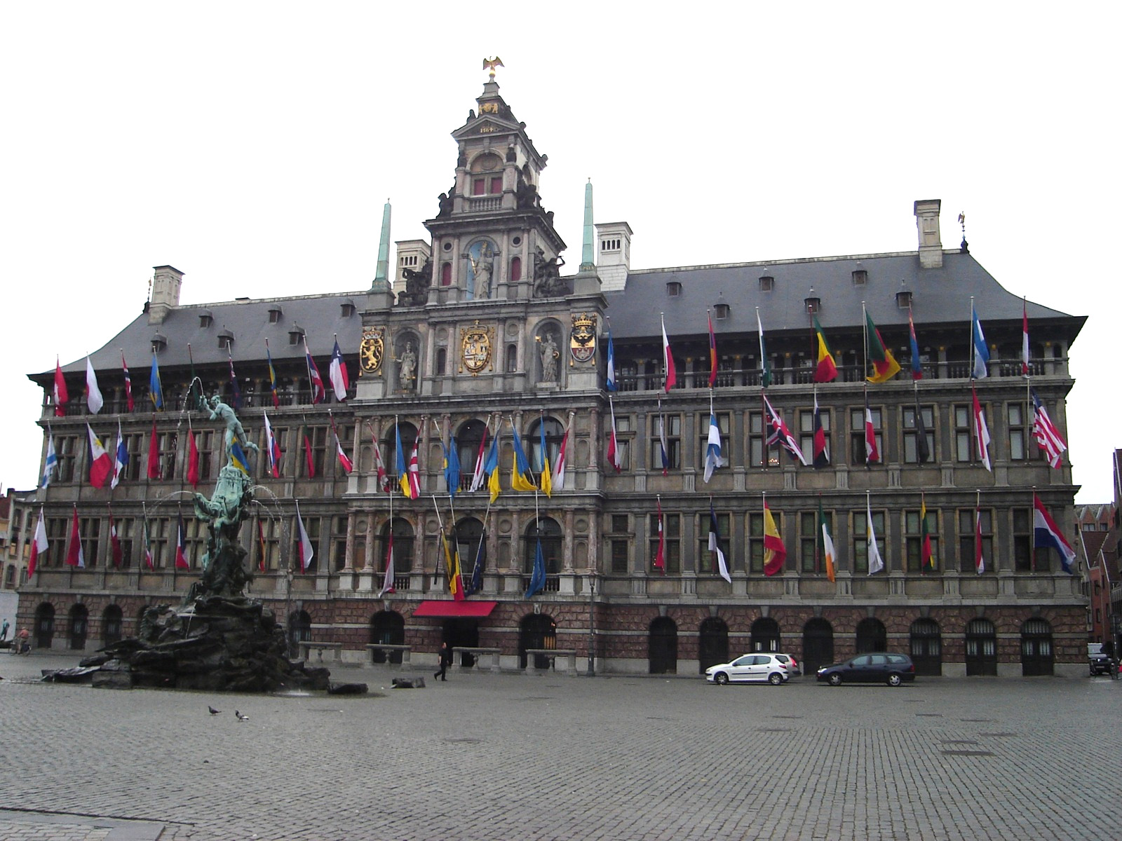 City Hall, Antwerp